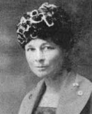 Marguerite Ogden Wilkinson, from a 1921 publication.